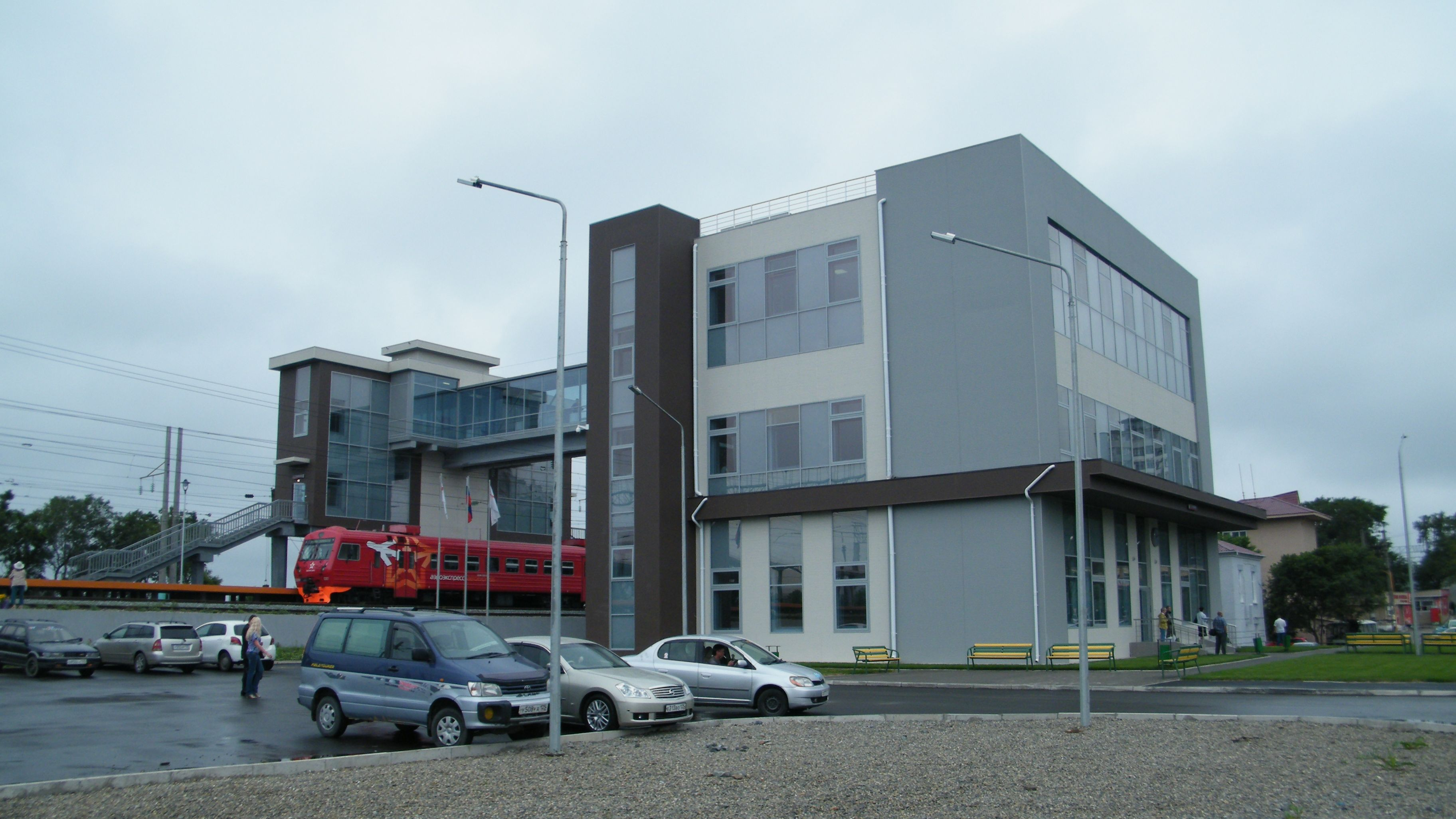 Vtoraya rechka station